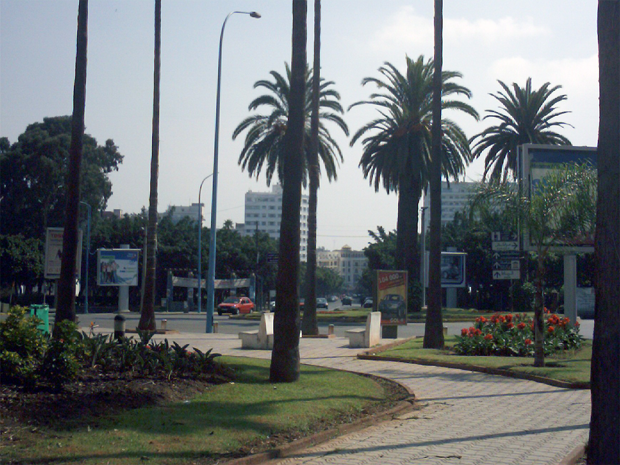 view of Place de l'Unite Africaine (African Unity Square) in Casablanca, taken from the street where the US consulate is situated